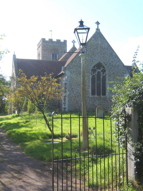 St Peter's parish church, Baylham, Suffolk, seen from the east